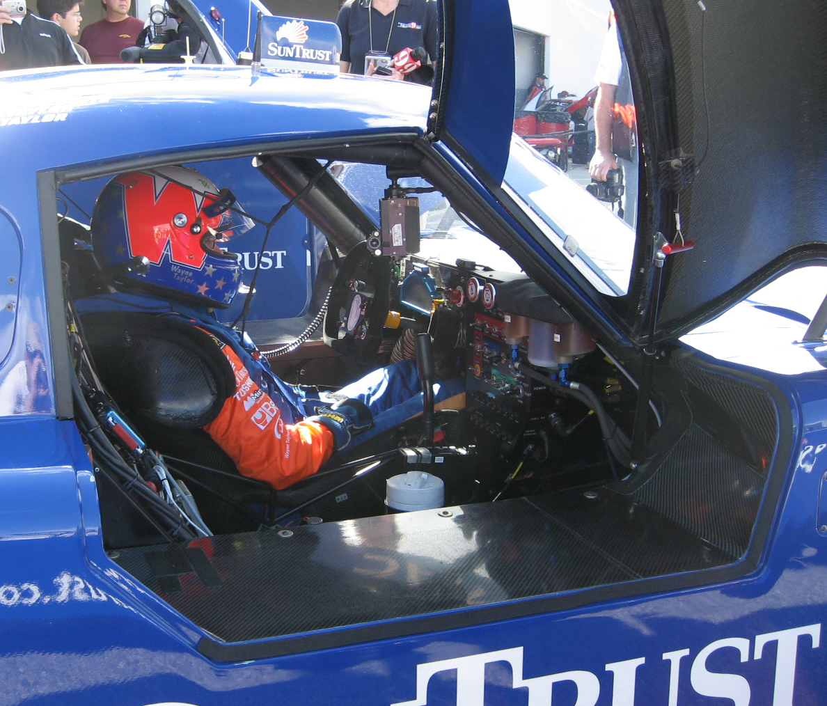 Wayne Taylor sitting in the cockpit of his SunTrust Racing Riley-Pontiac.